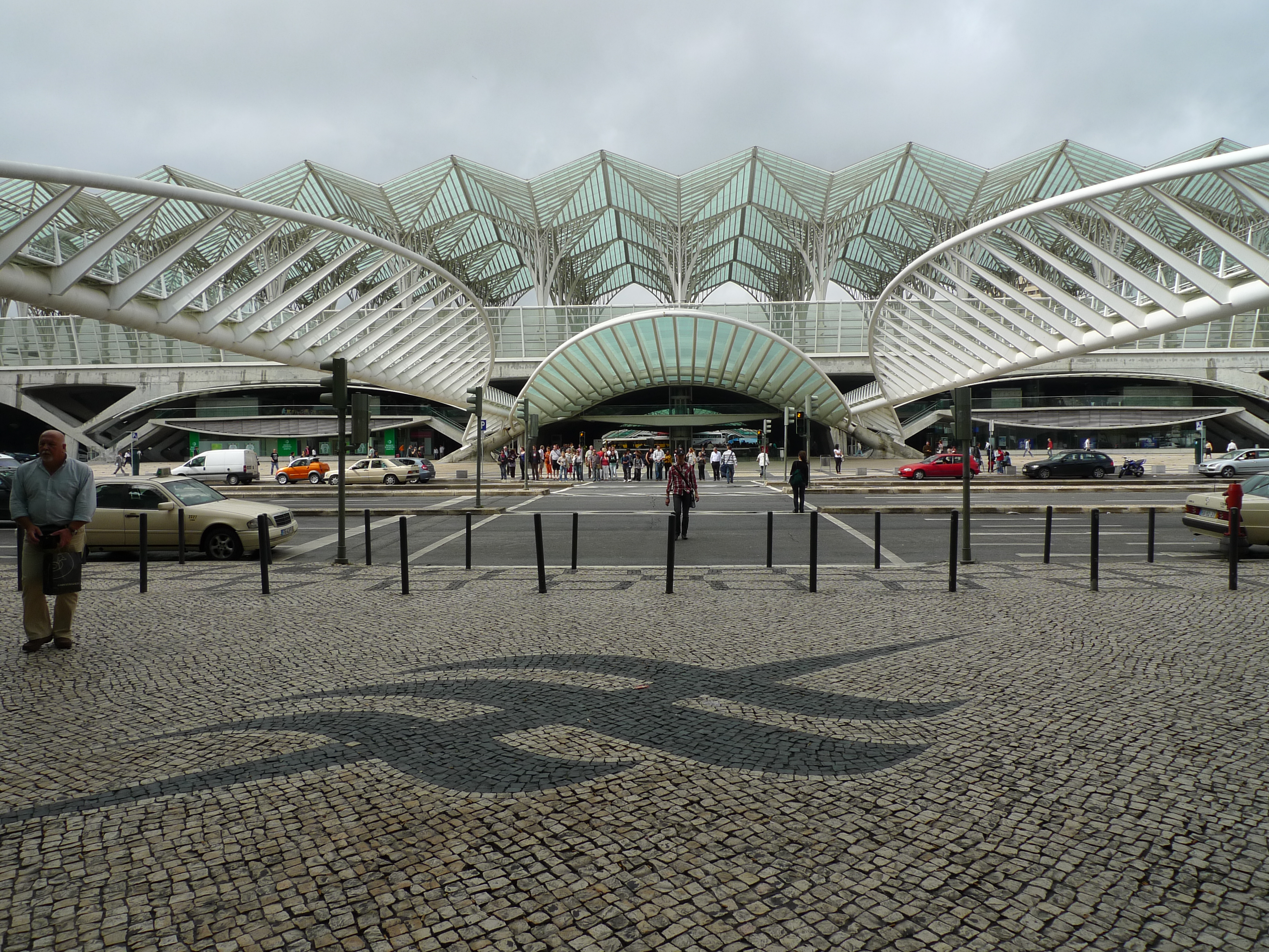 Gare do Oriente train station, Lisbon, Portugal